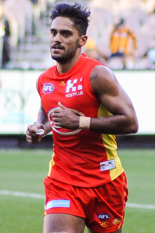 Aaron Hall during the AFL round twelve match between Melbourne and Collingwood on 10 June 2017 at the Melbourne Cricket Ground in Melbourne, Victoria.